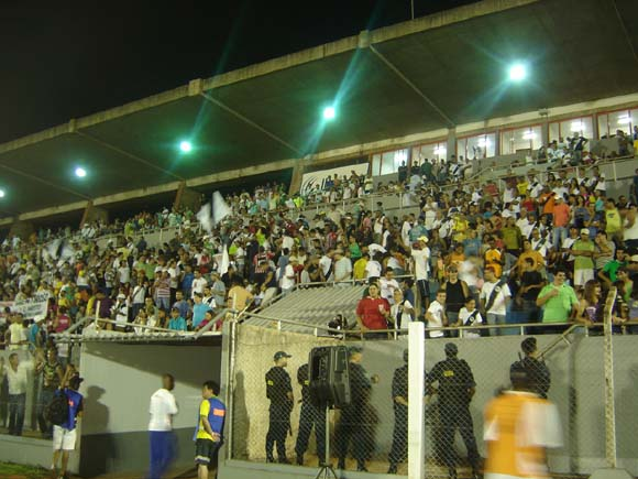 Game Misto